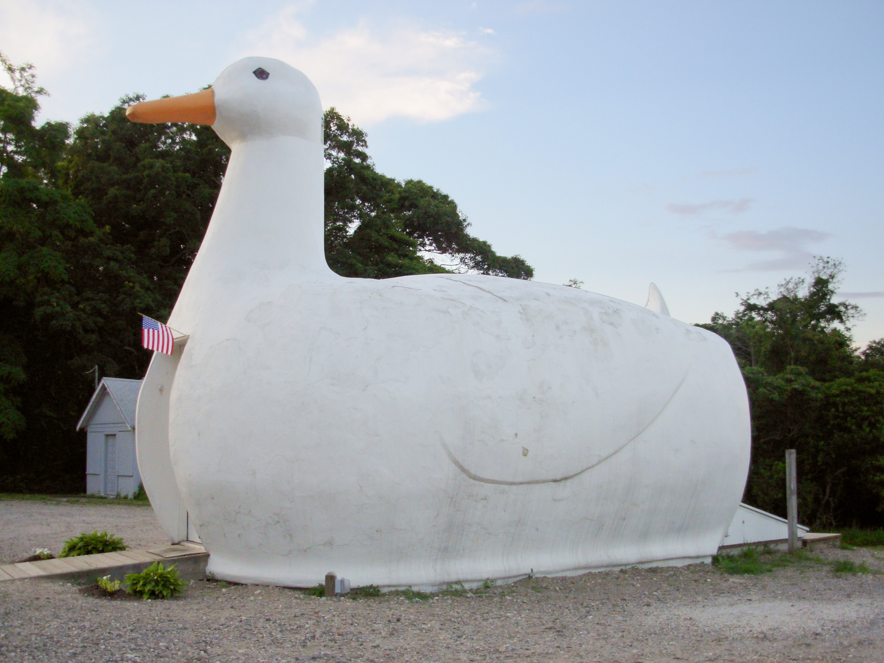 The Big Duck